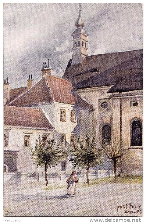 Postcard from the serie "Old Zagreb" by Pyotr Fetisov (1877-1926)